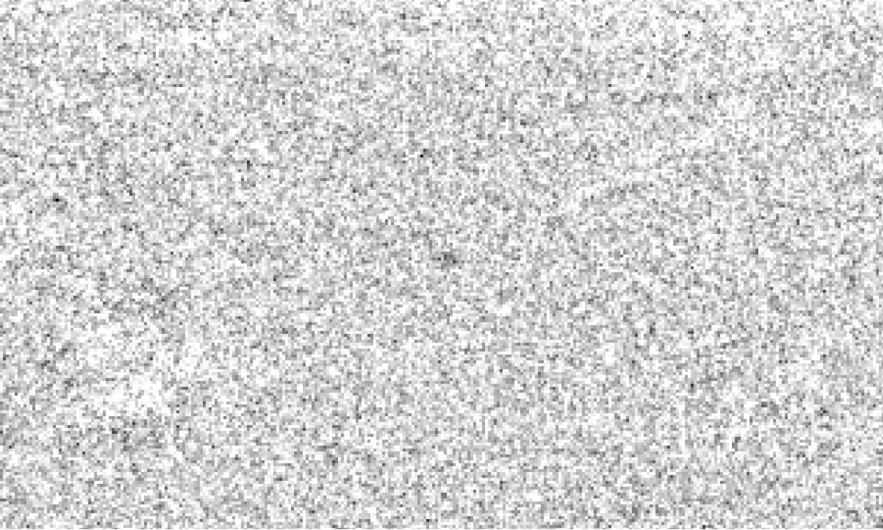 Faint, star-like image of Comet Halley (centre), observed with the ESO Very Large Telescope (VLT) at the Paranal Observatory on March 6-8, 2003. 81 individual exposures from three of the four 8.2-m VLT telescopes with a total exposure time of about 9 hours were combined to show the magnitude 28.2 object. At this time, Comet Halley was about 4200 million km from the Sun (28.06 AU) and 4080 million km (27.26 AU) from the Earth. All images of stars and galaxies in the field were removed during the extensive image processing needed to produce this unique image. Due to the remaining, unavoidable "background noise", it is best to view the comet image from some distance. The field measures 60 x 40 arcsec 2 ; North is up and East is left.